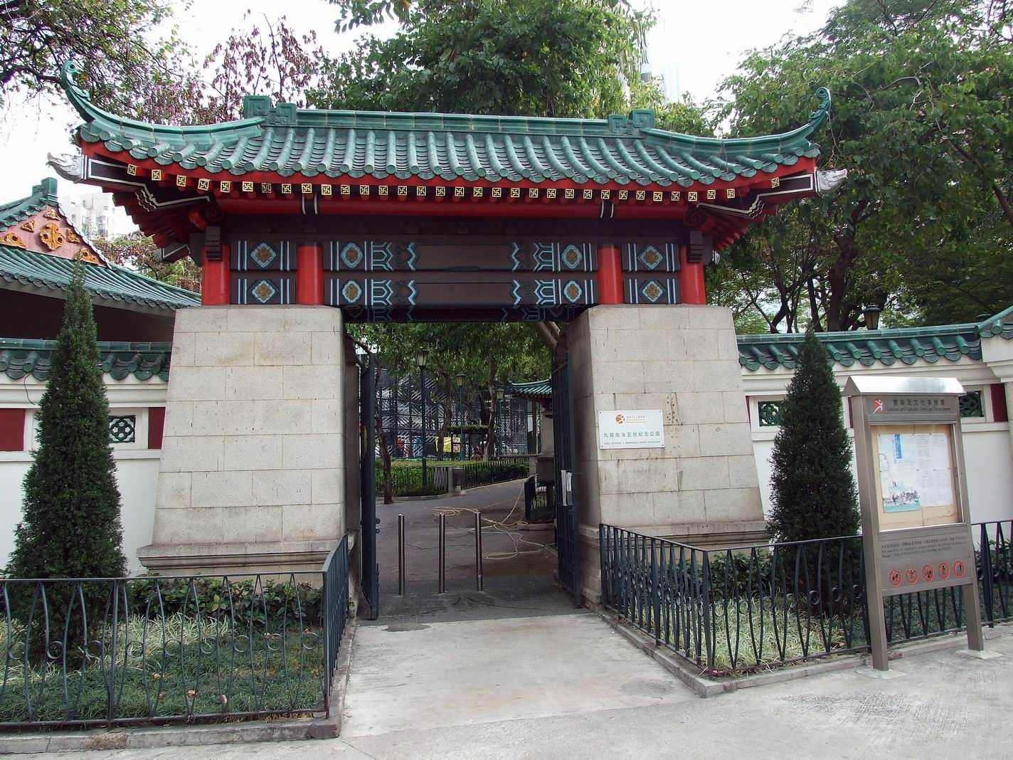 佐治五世紀念公園 - King George V Memorial Park, Kowloon